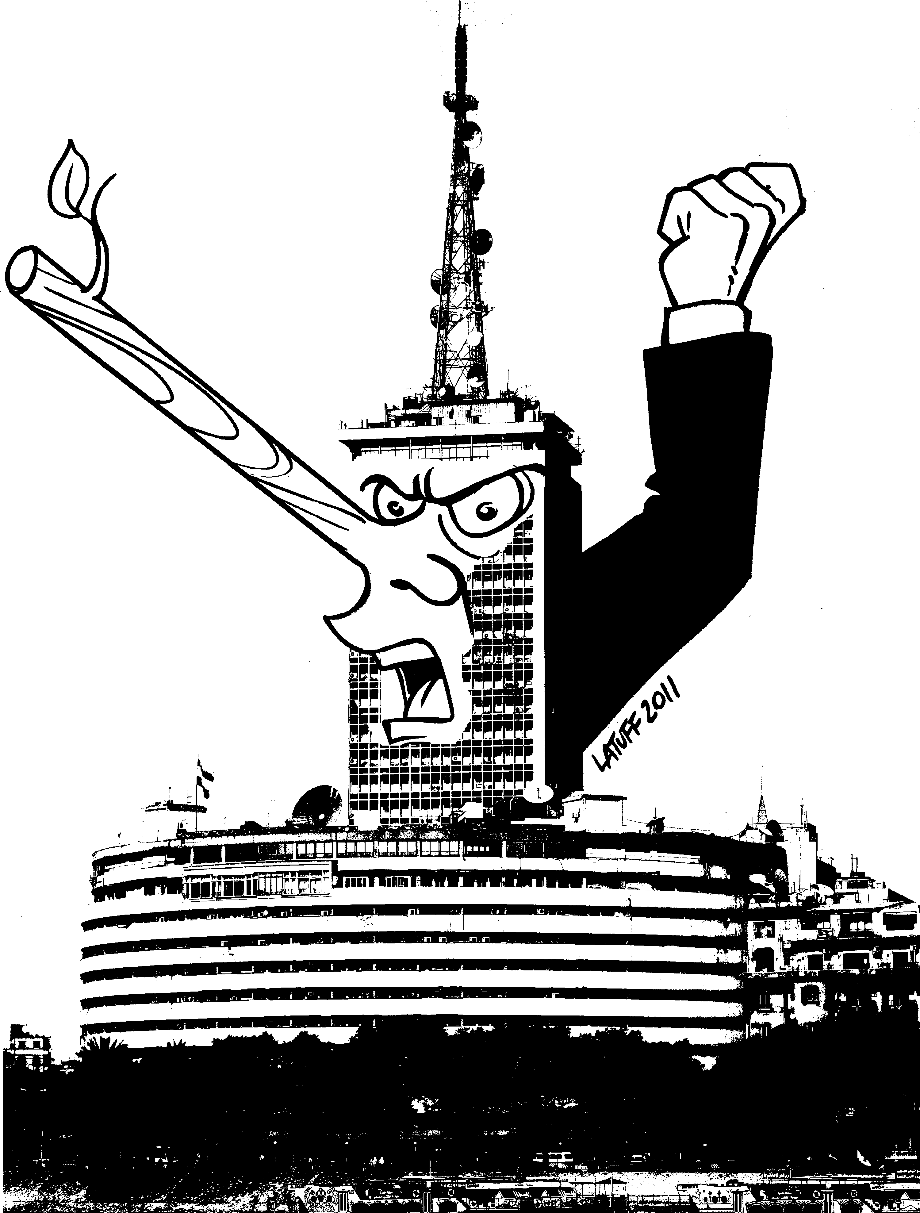 Egyptian Radio and Television Union